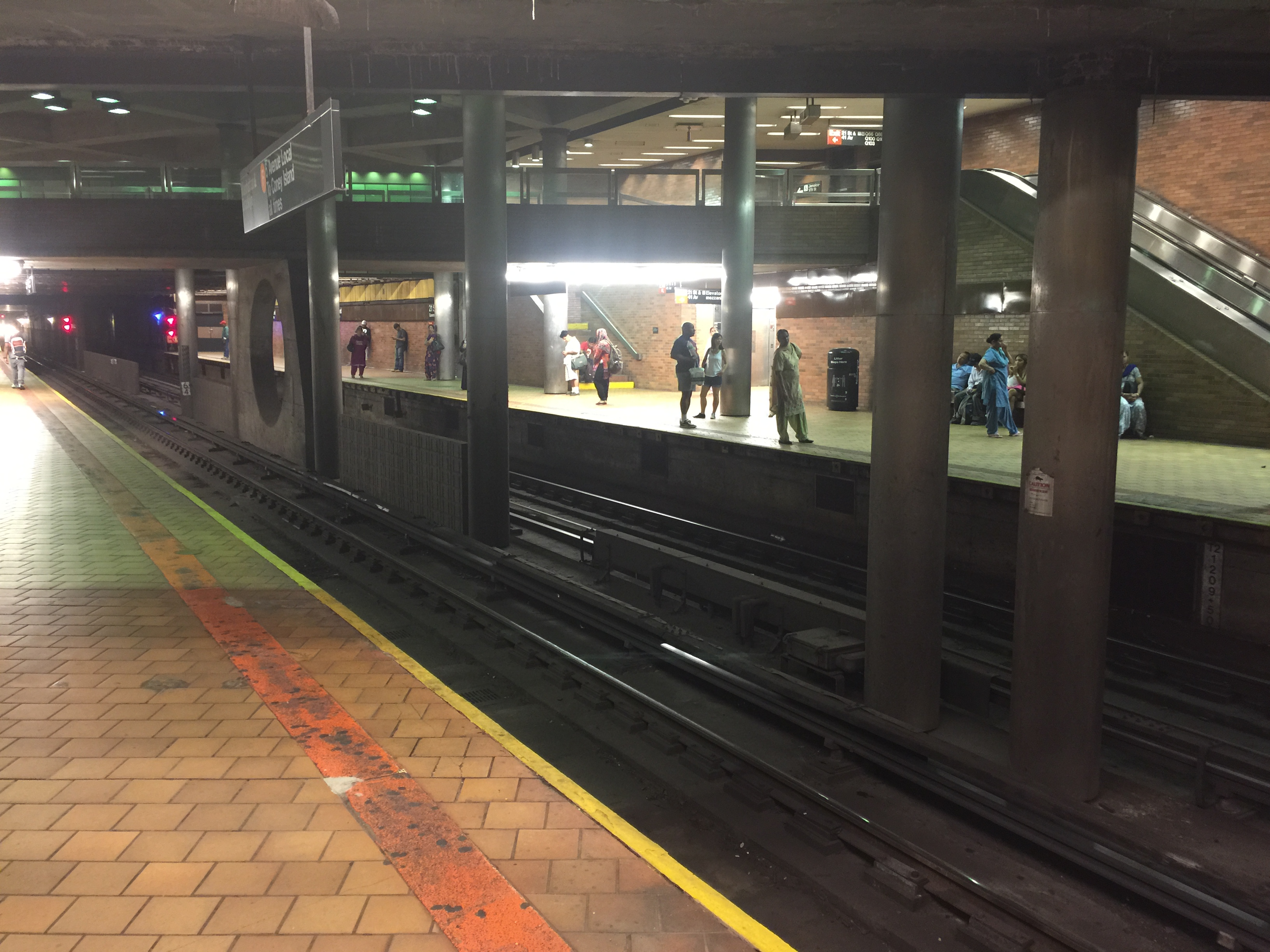 Eastern end of the station